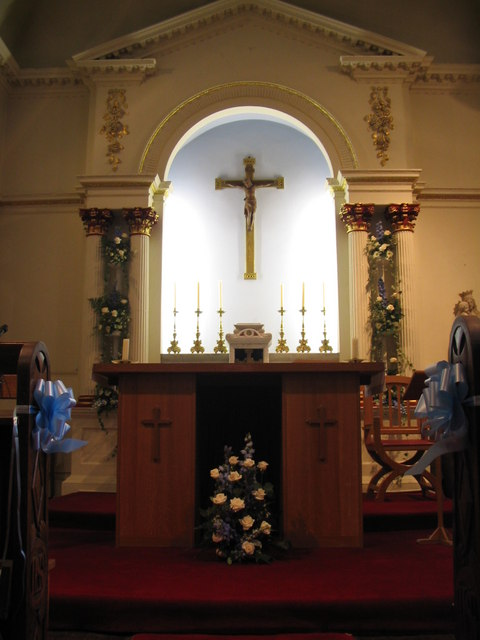 Holme Catholic Church Interior, Holme-on-Spalding-Moor, East Riding of Yorkshire, England.The Altar at Holme Catholic Church at Holme Hall